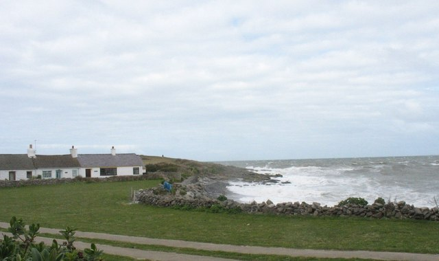 Bythynod y Swnt cottages and a lively sea